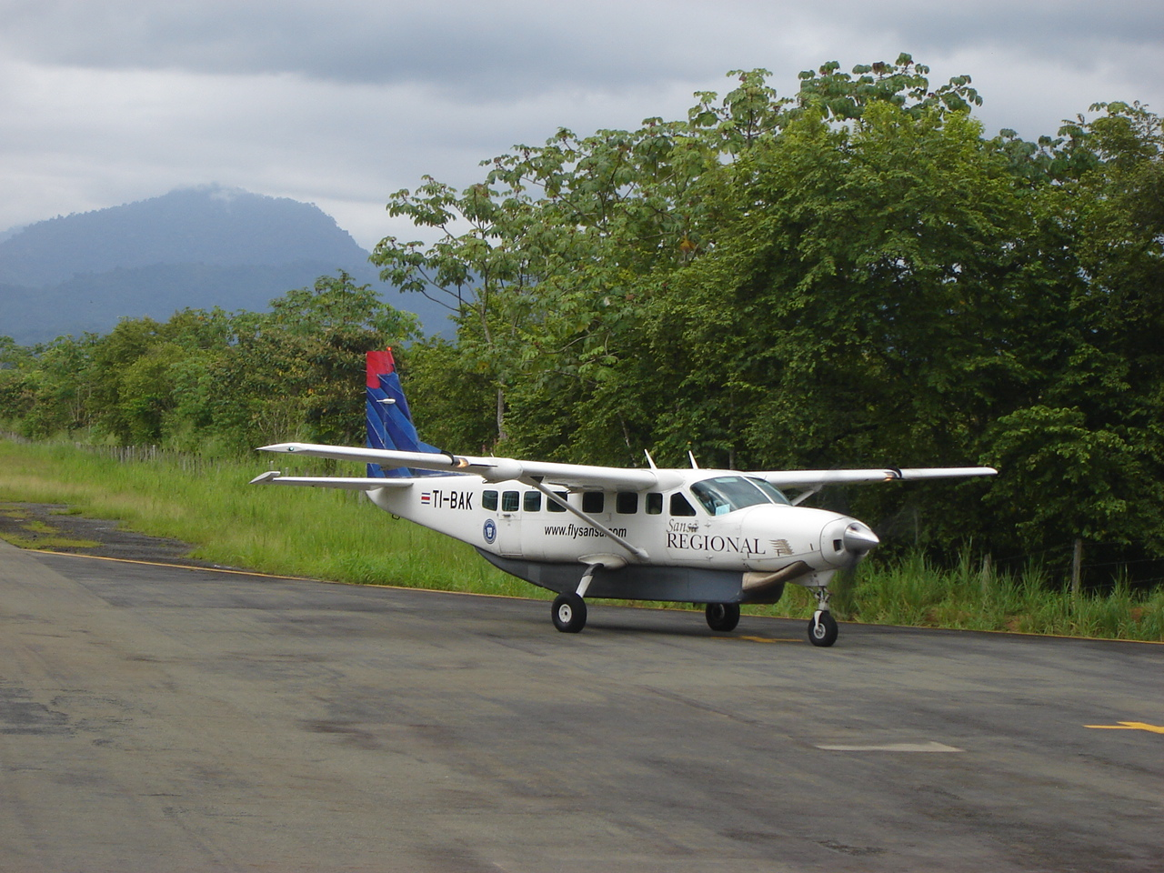 Sansa's TI-BAK (Cessna 208B Grand Caravan) arriving at Quepos Managua Airport (MRQP)